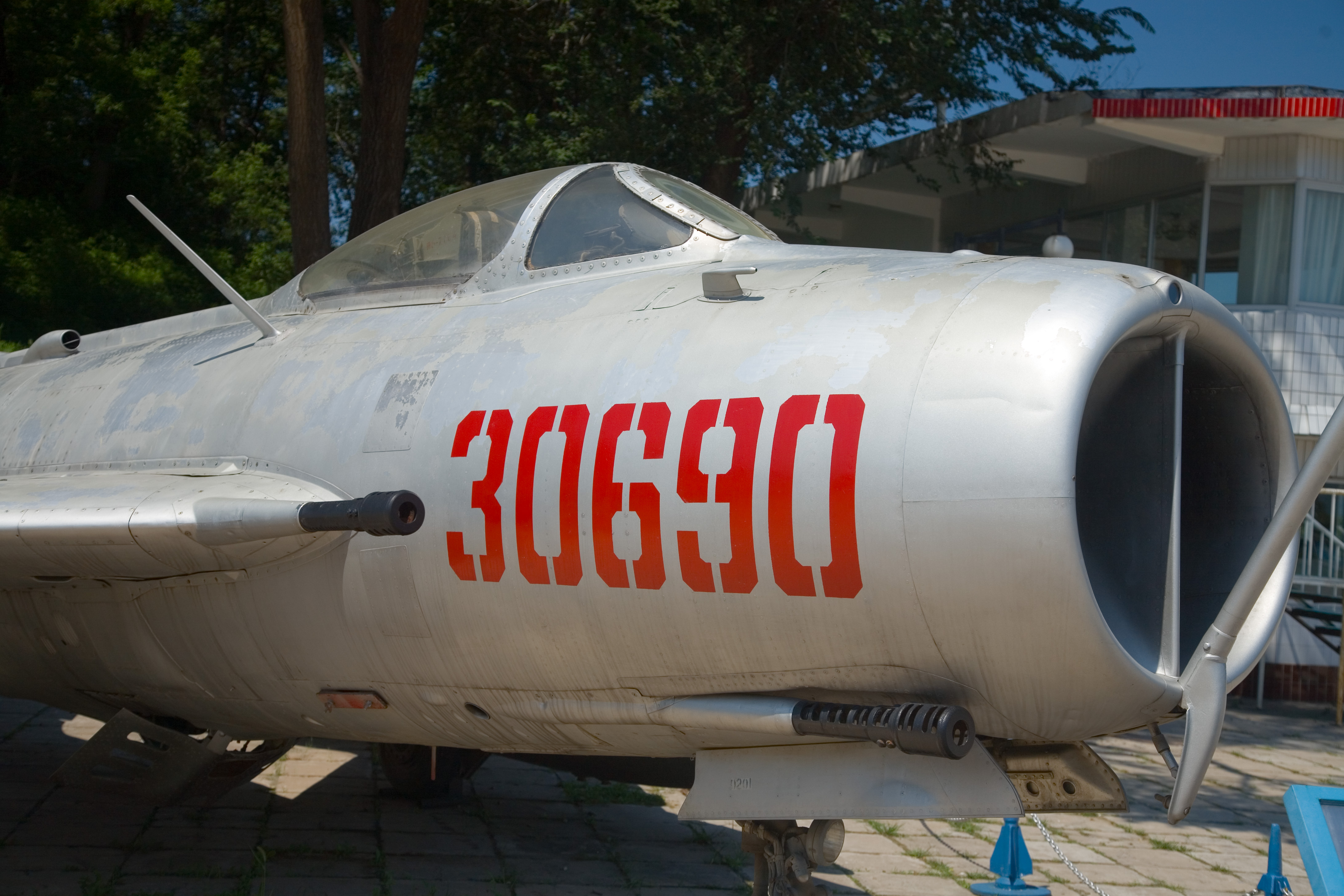 The nose of an F-6 fighter at the China Aviation Museum